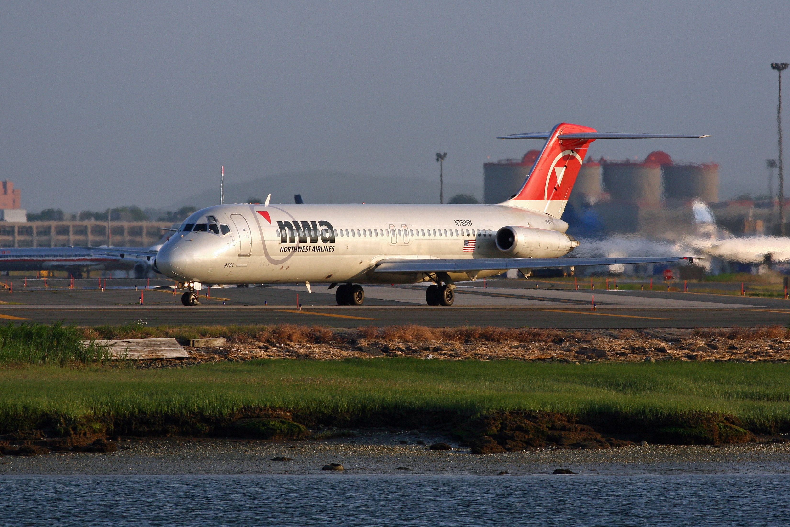 Heading for the runway at Logan Airport Boston, Massachusetts USA.